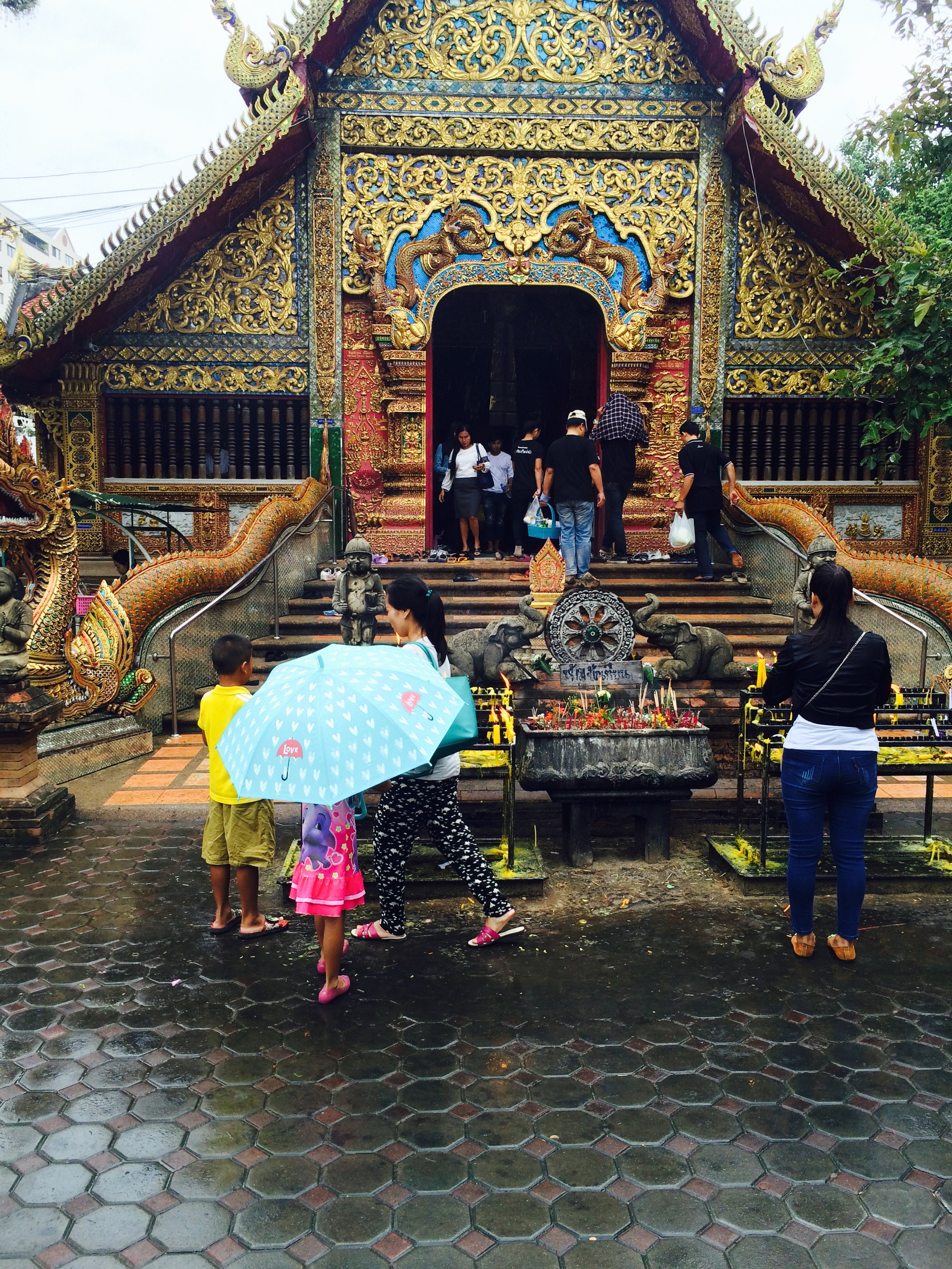 Another wat in Chiang Mai. Important one but not listed